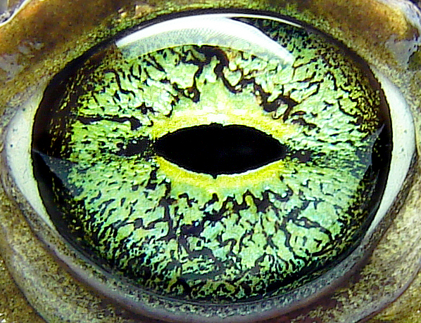 A cropped image displaying Daipeem's eye. Granted, a whole new macro photo would have been best, but I didn't have time for that. Had I known this photo would have been featured on numerous websites, and win an image contest, I would have taken the time to do a real high-res macro. Daipeem is a European green toad, Bufo viridis. Here's his whole body: This photo is also featured in the Encyclopedia of Life: And on : And